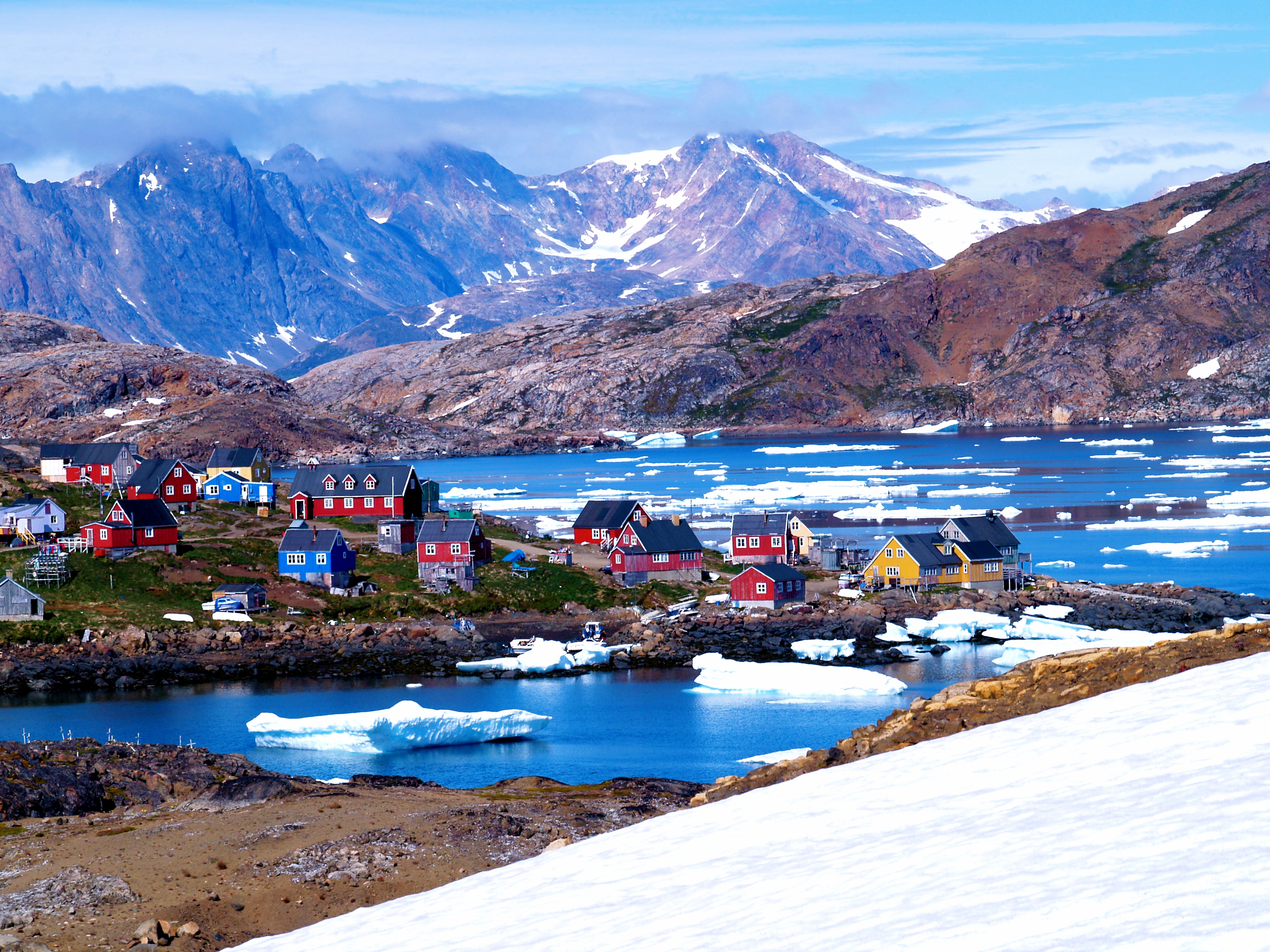 Village of Kulusuk (population 360) on the eastern coast of Greenland. July 2006.